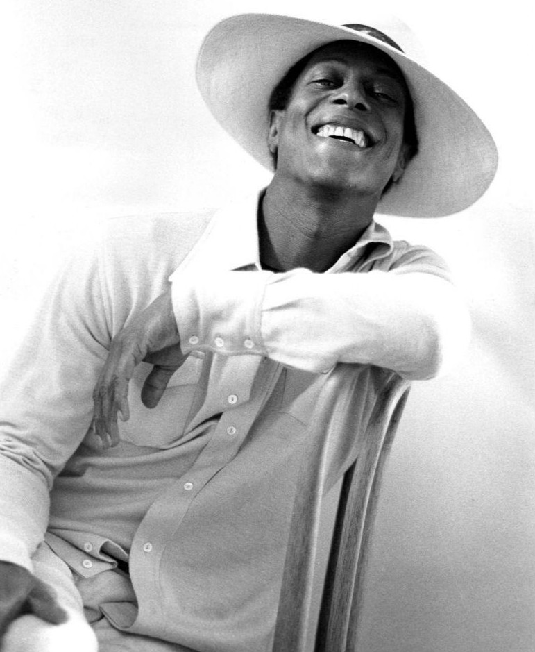 Photo of Canadian actor and singer Leon Bibb.